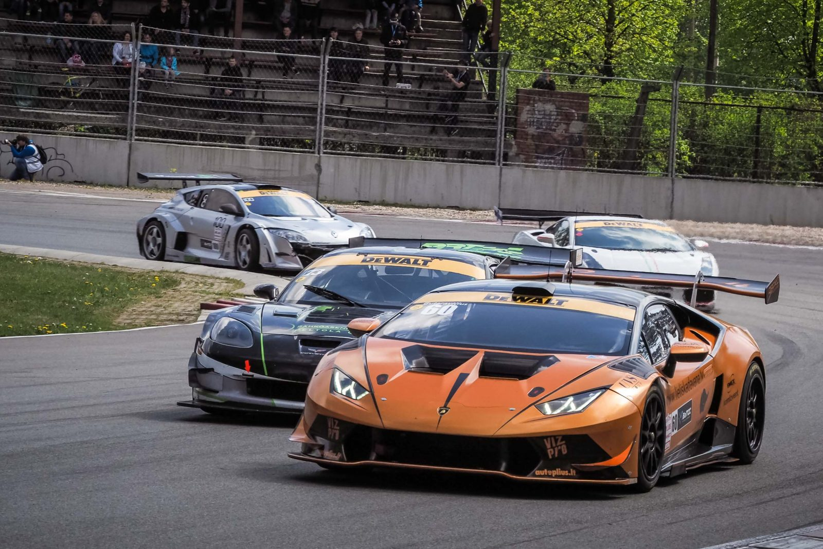 Riga, Bikernieki track, BTC cars in action. Photo: BaTCC